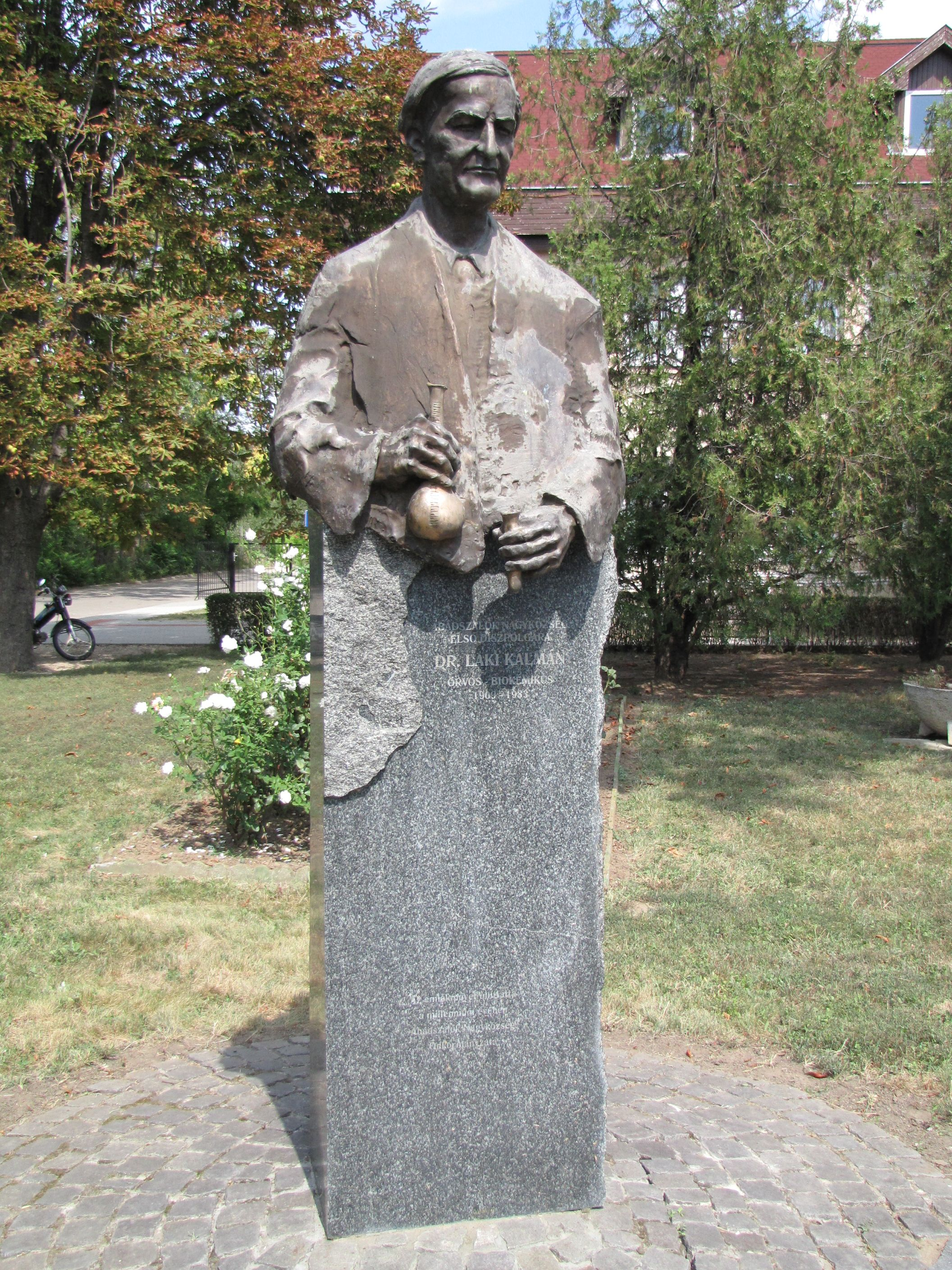 Statue of Kálmán Laki, Abádszalók, Hungary